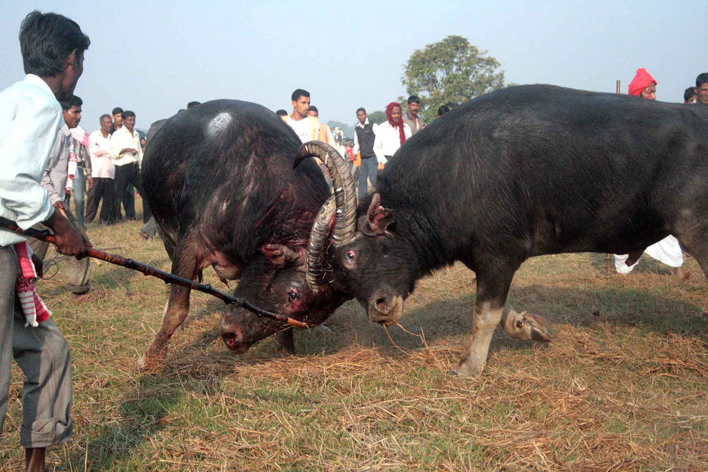 A Buffalo fight held at Ranthali, in Nagaon District of Assam, North Eastern State of India on the ocassion of Magh Bihu, a festival of Assamese Community. অসমীয়া: মাঘ বিহুৰ উপলক্ষে নগাঁও জিলাৰ ৰনথলিত অনুষ্ঠিত ম'হ যুঁজ